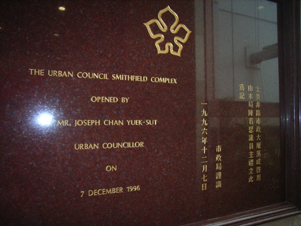 Smithfield 士美非路, Kennedy Town, Hong Kong (By KennedyTom).